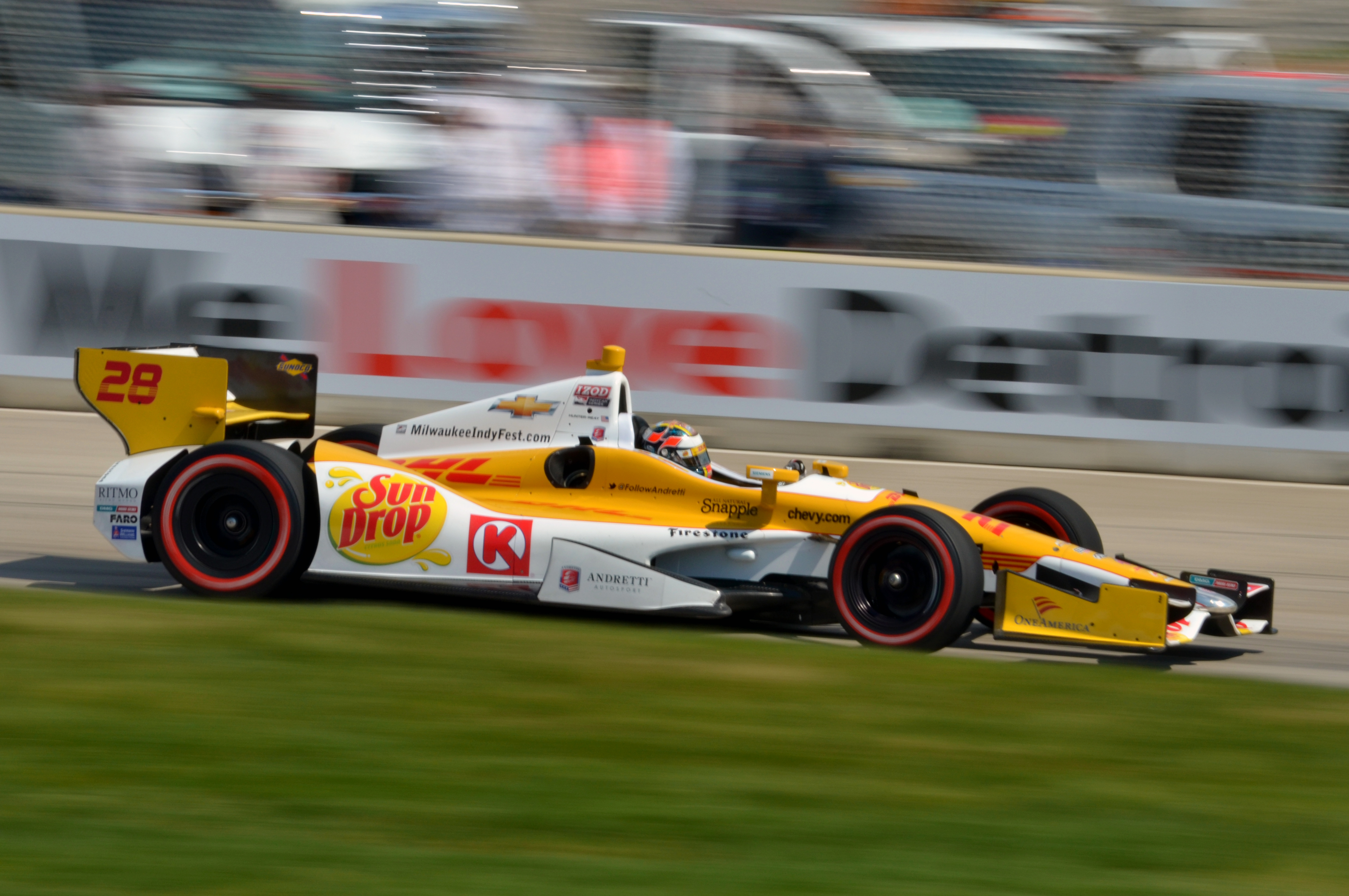 Ryan Hunter-Reay driving the Dallara DW12 for Andretti Autosport at the 2012 Detroit Belle Isle Grand Prix. Round 6 of the 2012 IndyCar Series